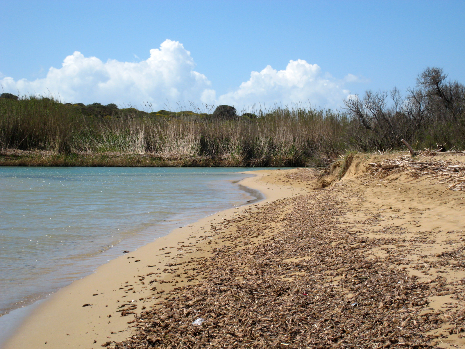 Beach of Eloro, mouth of the river Tellaro (Vendicari, Noto, province of Syracuse, Sicily)